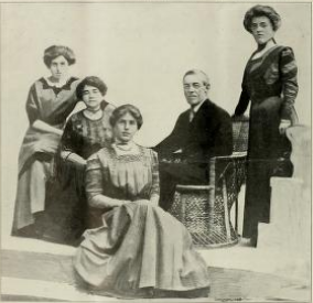 "THE WOMAN CITIZEN" GOVERNOR WOODROW WILSON, DEMOCRATIC NOMINEE FOR PRESIDENT, AND HIS FAMILY. By courtesy of the "Newark Star". Copyright, 1910, by the Newark Advertiser Publishing Company.